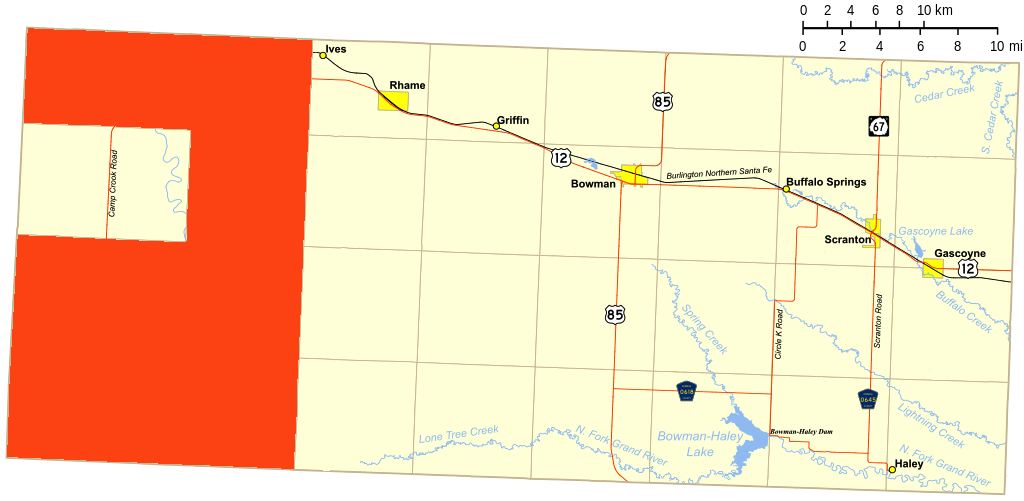 Map of Bowman County, ND, with West Bowman UT highlighted